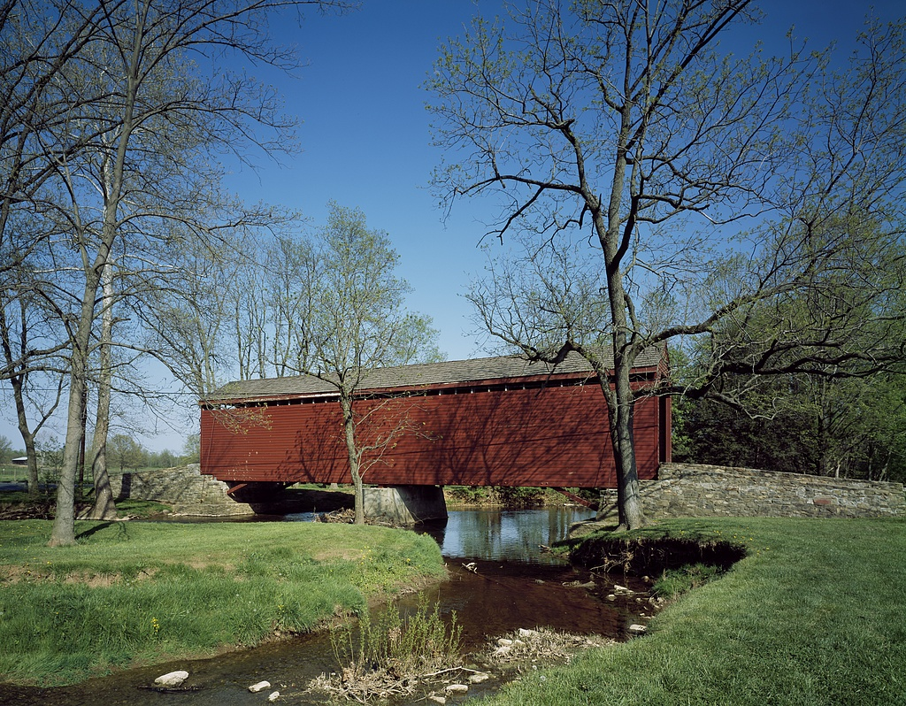 Title: Loys Station covered bridge, Thurmont, Maryland, built in 1900 Creator(s): Highsmith, Carol M., 1946-, photographer Date Created/Published: [between 1980 and 2006] Medium: 1 transparency : color ; 4 x 5 in. or smaller Reproduction Number: LC-DIG-highsm-13532 (digital file from original) LC-HS503-2490 (color film transparency) Rights Advisory: No known restrictions on publication. Call Number: LC-HS503- 2490 (ONLINE) [P&P] Repository: Library of Congress Prints and Photographs Division Washington, D.C. 20540 USA Notes: Digital image produced by Carol M. Highsmith to represent her original film transparency; some details may differ between the film and the digital images. Title, date, and keywords provided by the photographer. Credit line: Photographs in the Carol M. Highsmith Archive, Library of Congress, Prints and Photographs Division. Gift and purchase; Carol M. Highsmith; 2011; (DLC/PP-2011:124). Forms part of the Selects Series in the Carol M. Highsmith Archive.